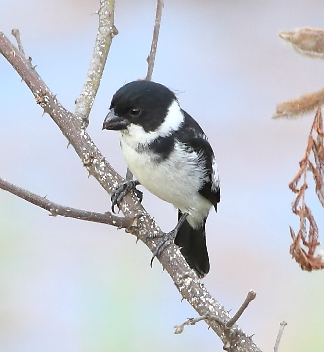 Wing-barred seedeater (male) at Iranduba - AM - Brazil